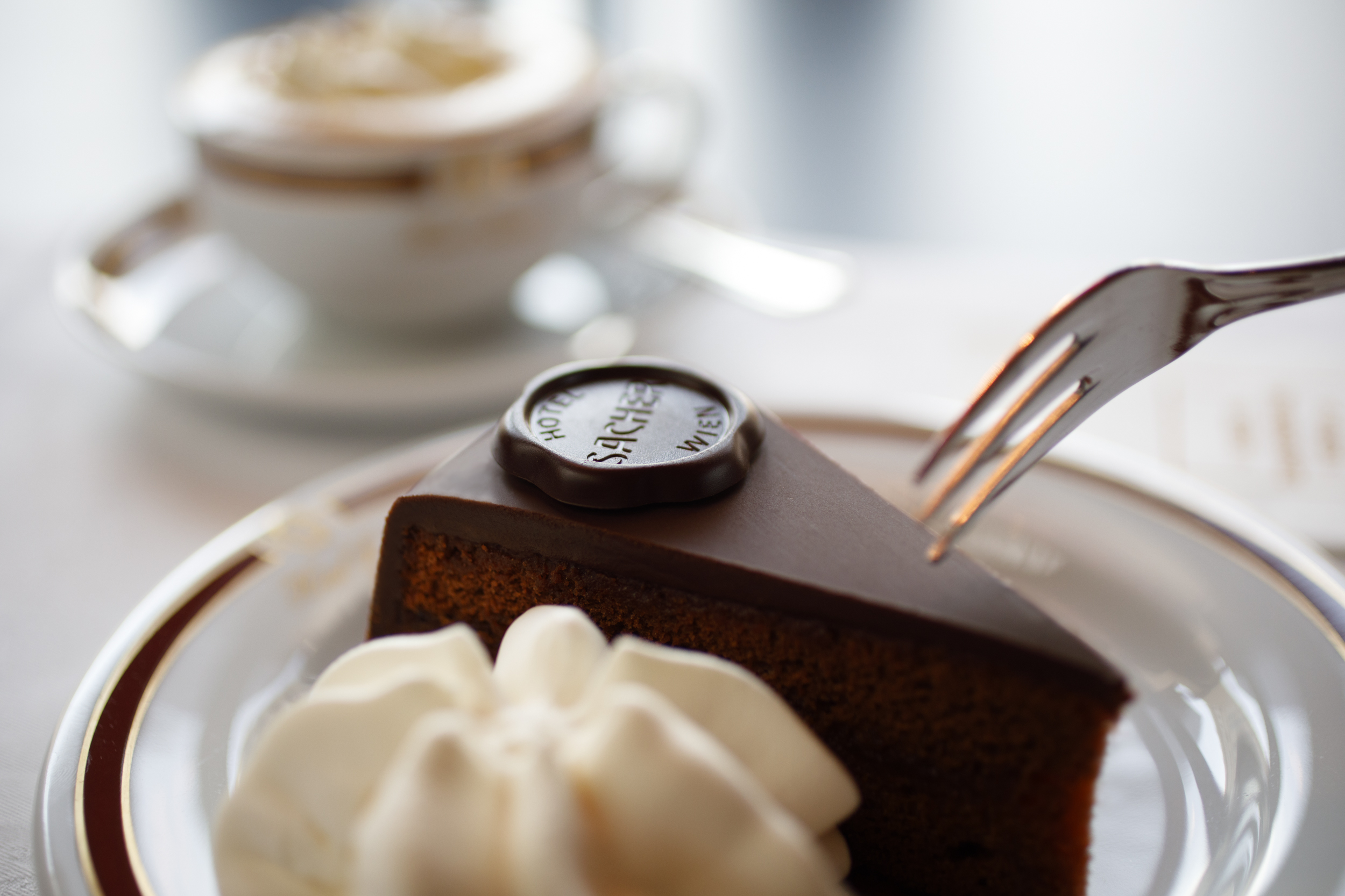 Original Sacher-Torte